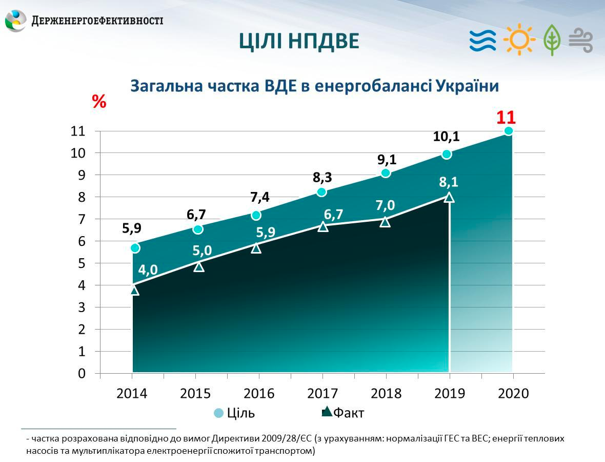 Ukraine RE targets